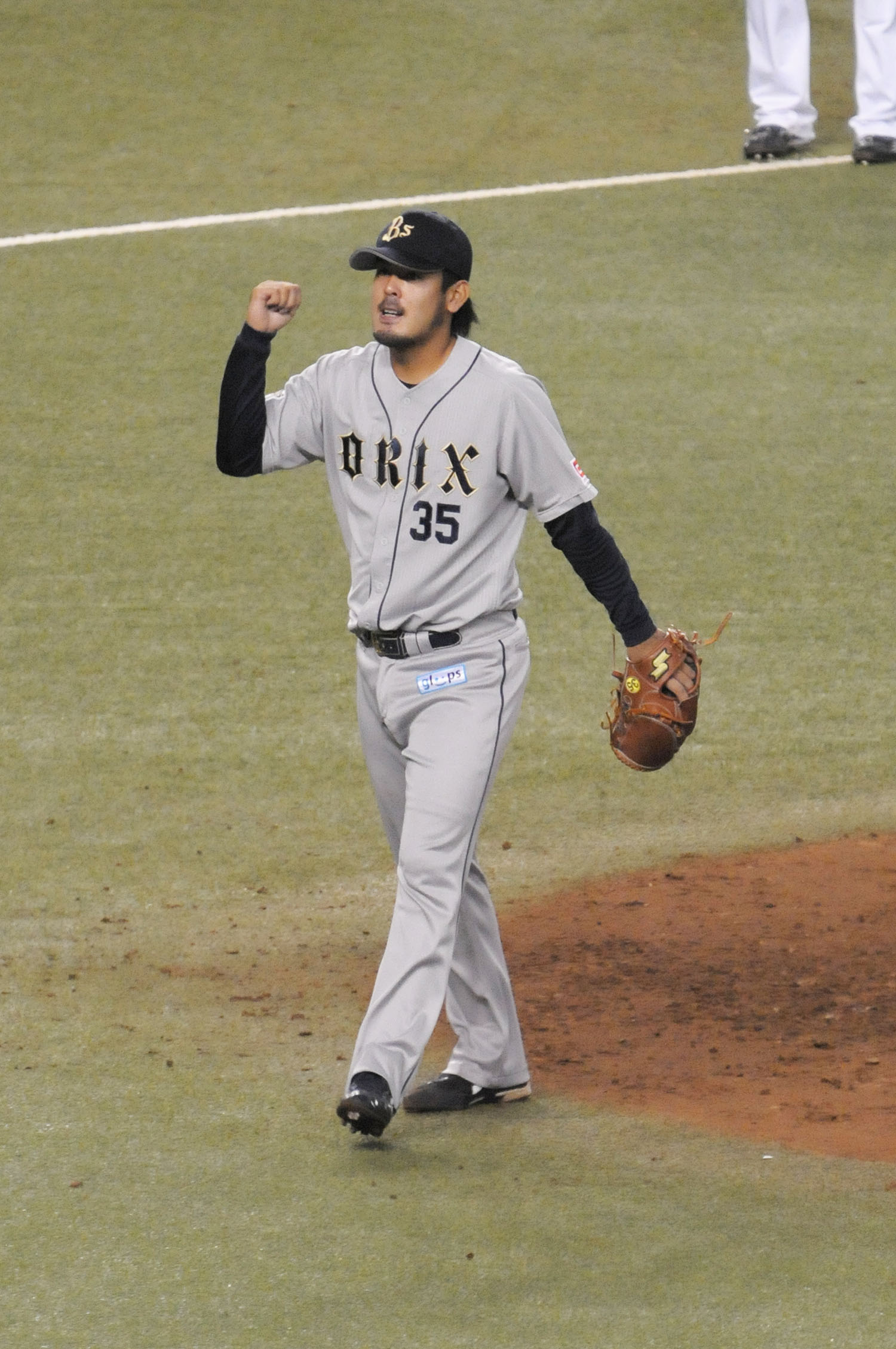 Motoki Higa, a pitcher of the Orix Buffaloes, at the Seibu Dome.